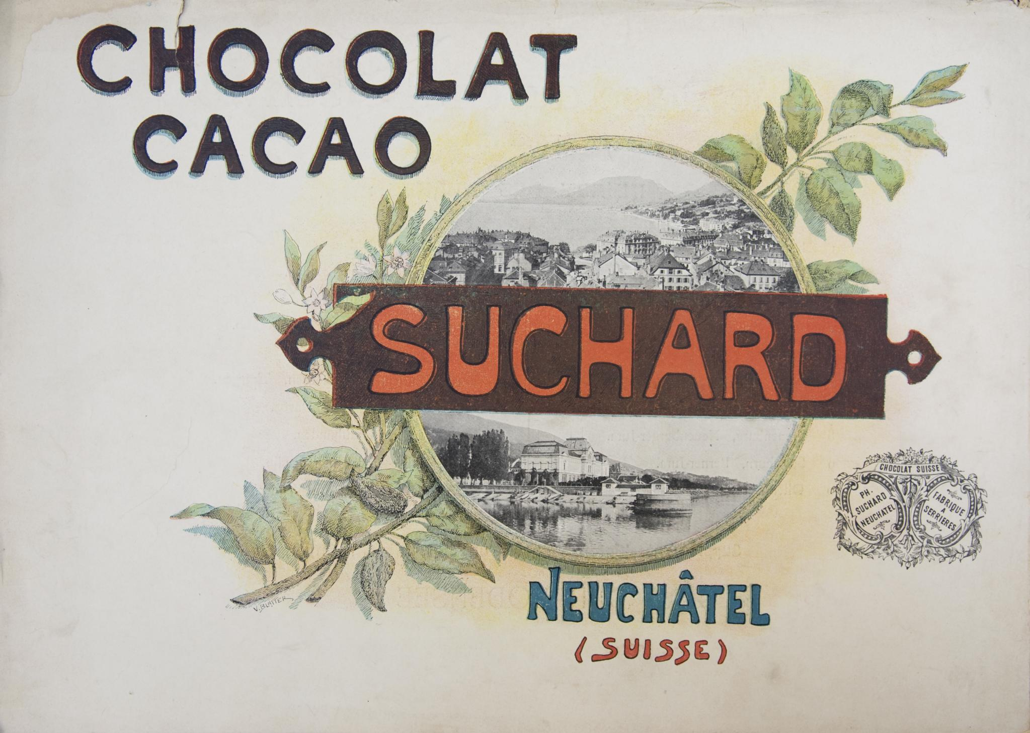 Chocolat Suchard advertising. Source: Comptoir de phototypie, Neuchâtel (ed.), Meine Reise durch die Schweiz. no date (probably 1897). Imprimerie des Châtelles, Raon-l'Étape.